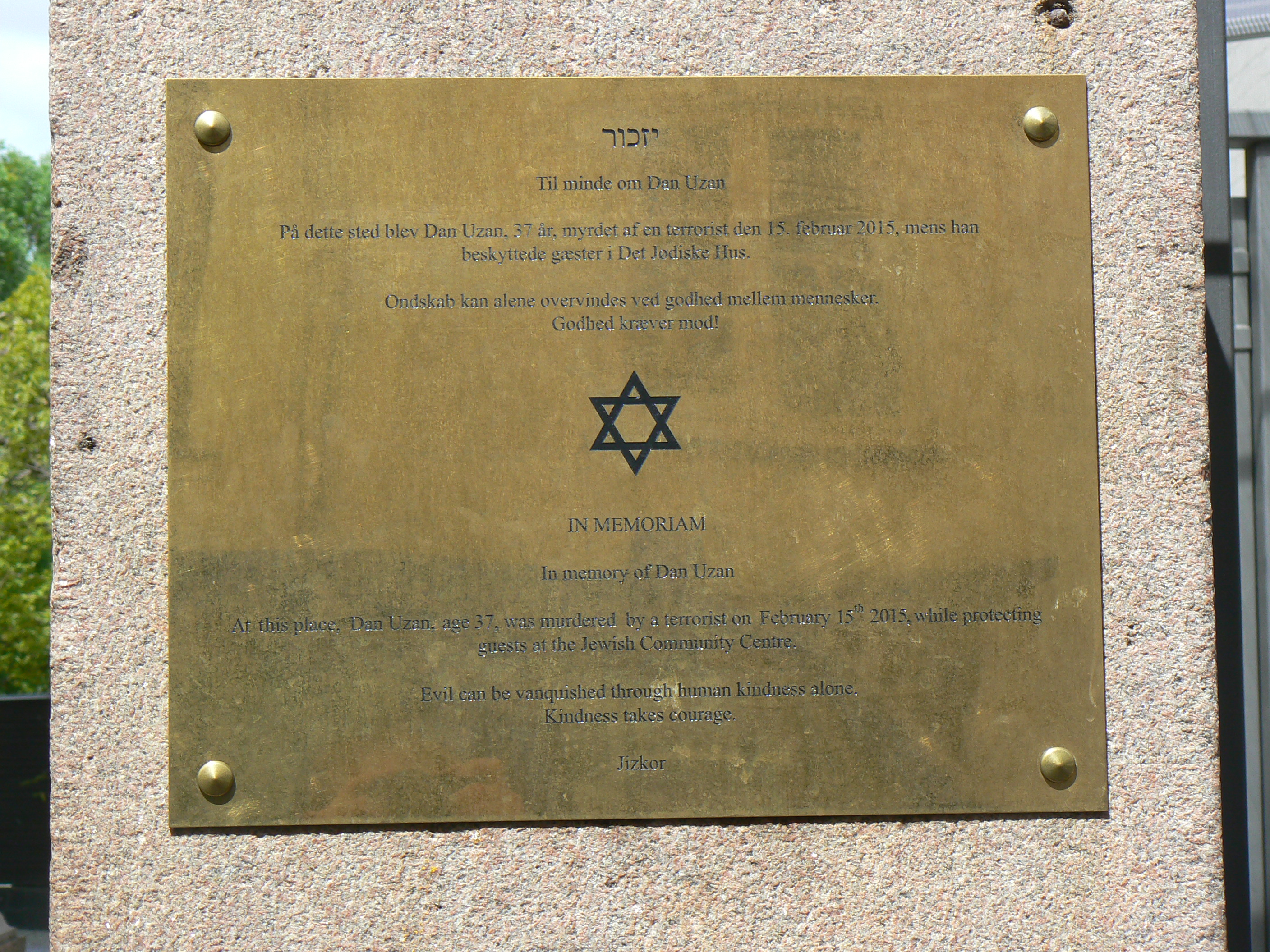 In memory of Dan Uzan. The plaque in Great Synagogue of Copenhagen commemorating terrorist attacks on 15th February, 2015.